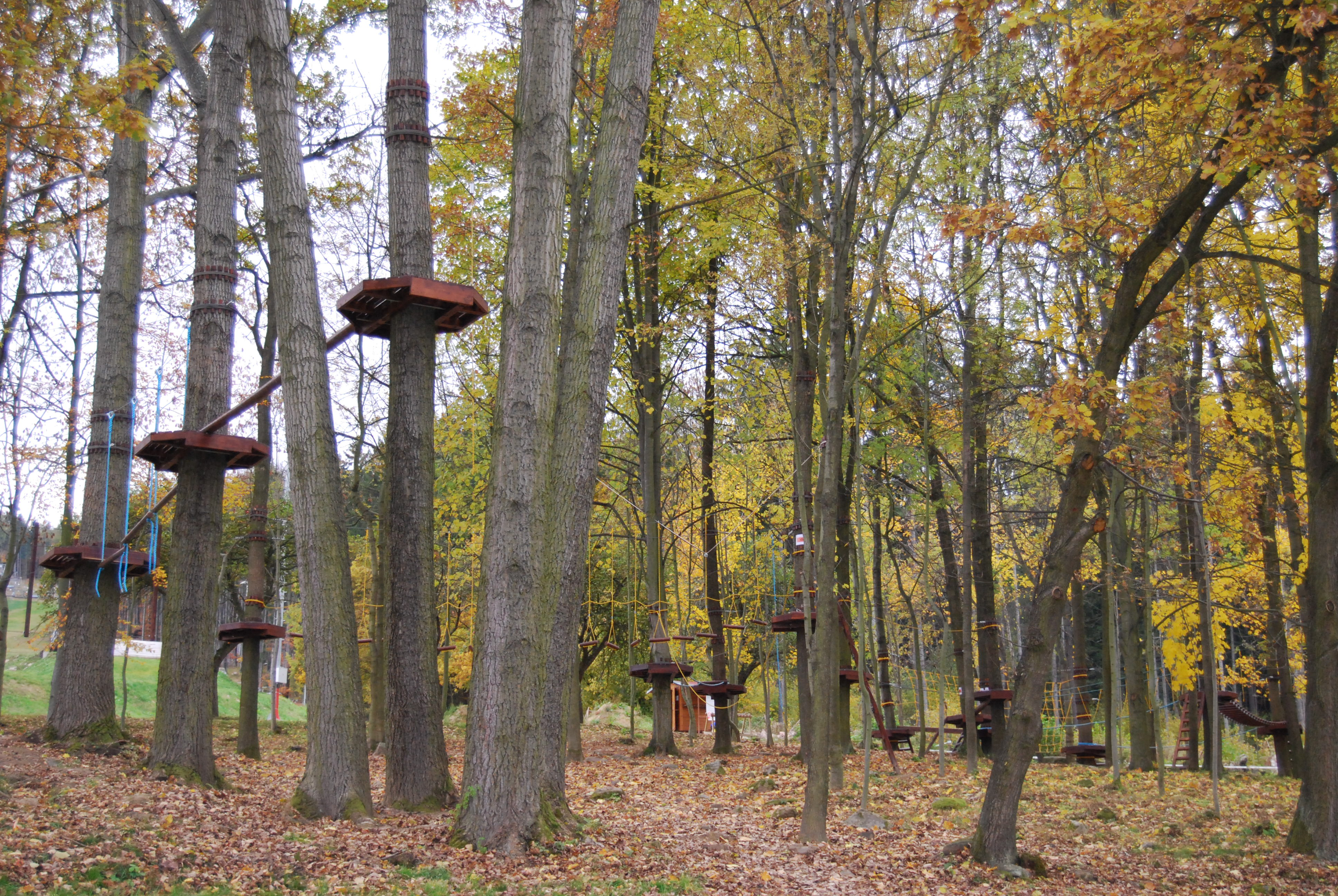 Ski resort Monínec in Příbram District, Czech Republic